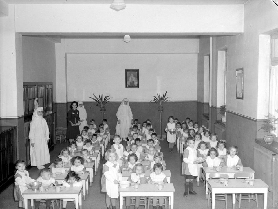 We see students from kindergarten Soeurs franciscaines missionnaires de Marie located at 80 Laurier Avenue East in Montreal. Some children are serving meals from friends seated in pairs. They are under the supervision of three religious and secular.